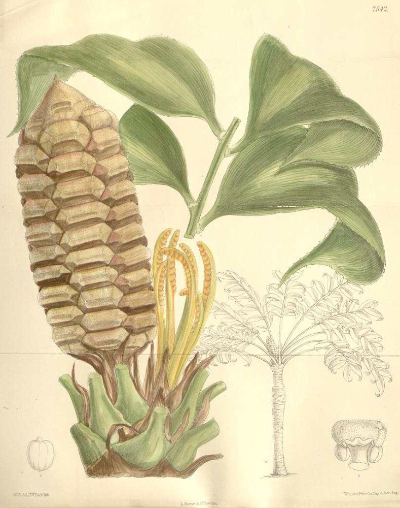 Illustration of Zamia obliqua